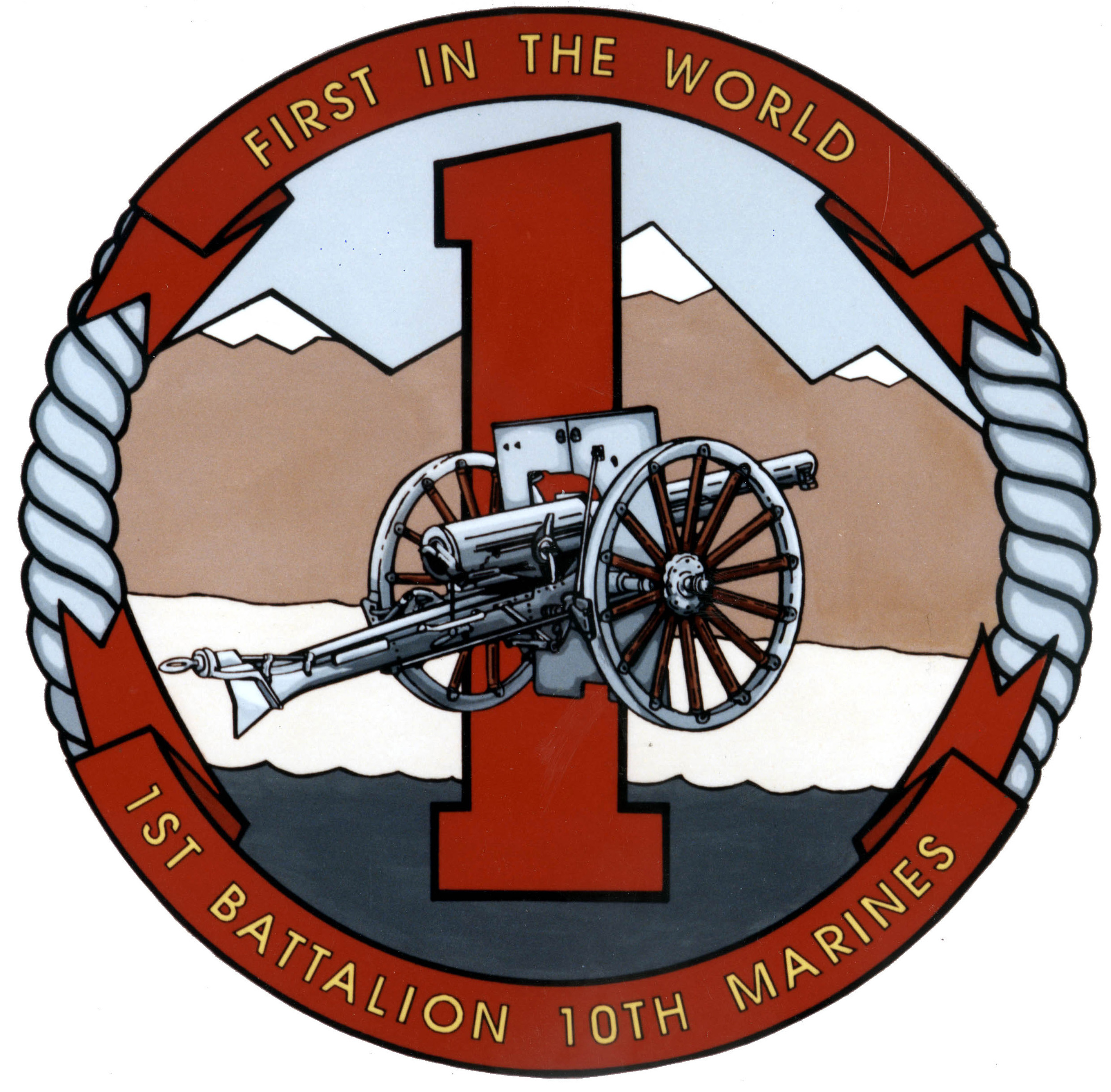 Logo of the 1st Battalion, 10th Marines, 2018 version